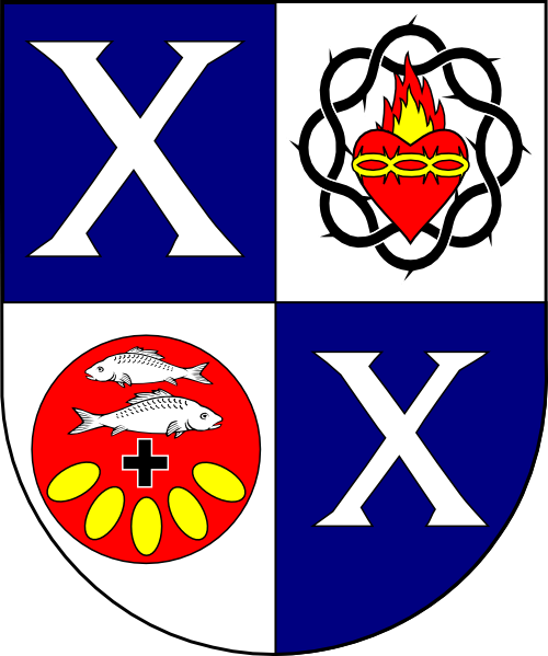 Coat of arms (shield only) of Rudolf Baláž, bishop of Banská Bystrica, Slovakia (1990 - 2011)